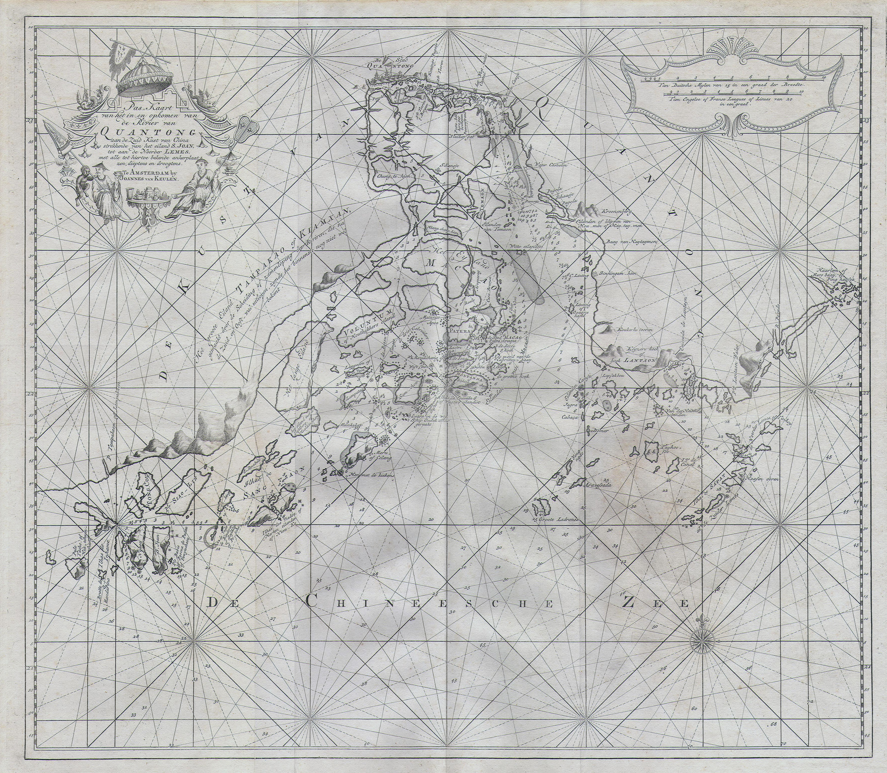 Extremely rare collector's map that was published only in the secret atlas of the Dutch East India Company, for internal use. Early chart of Hong Kong and the Pearls River estuary.